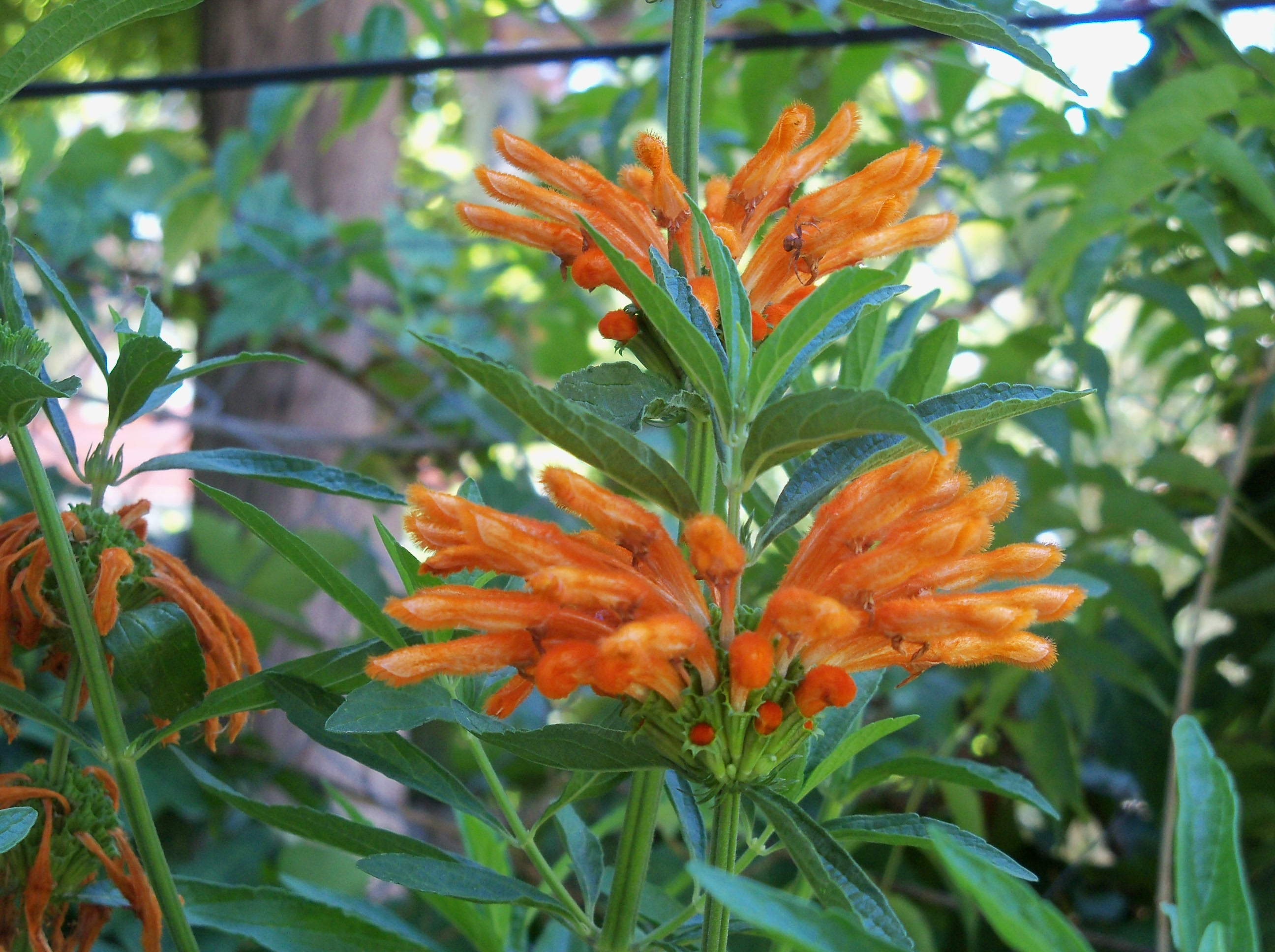 Flores de Leonotis leonurus (Mar del Tuyú, Buenos Aires, Argentina).